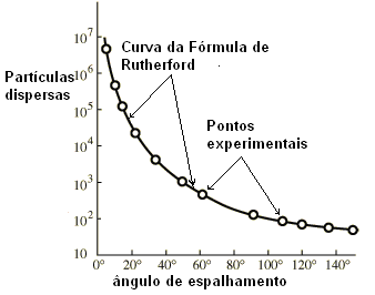 Verificação da fórmula de Rutherford